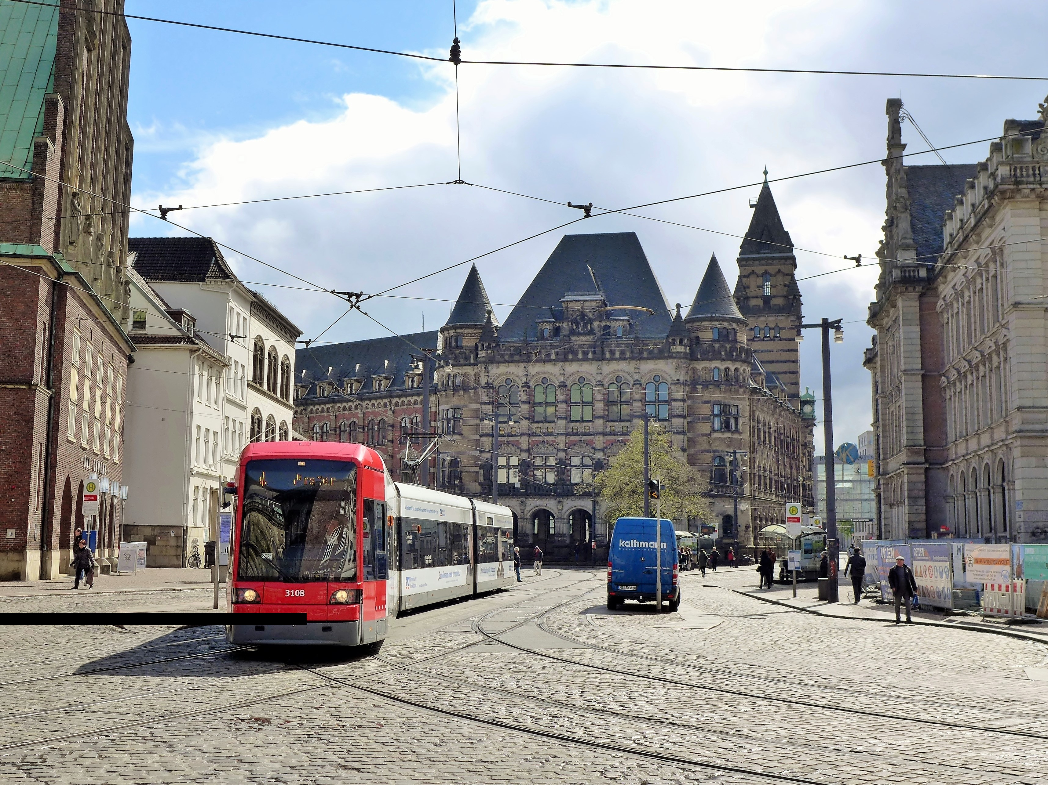 Bremer Straßenbahn AG (BSAG) tram no. 3108 operating an Arsten-bound line 4 service in Domsheide, Bremen, Germany.